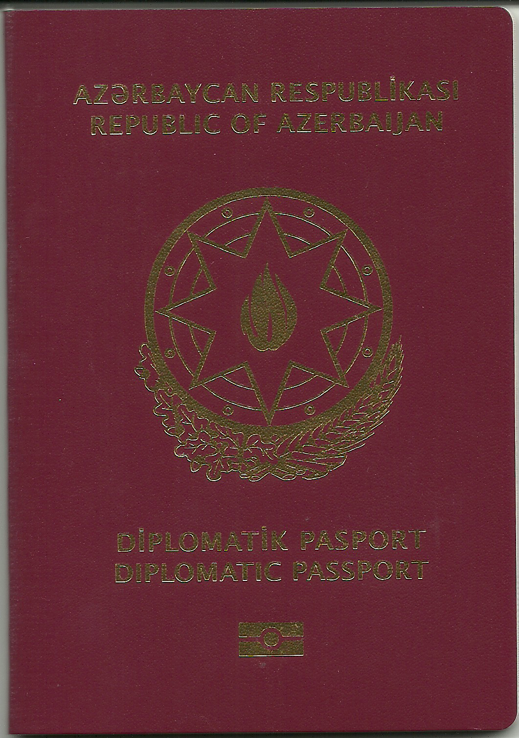 The cover of an Azerbaijani diplomatic passport